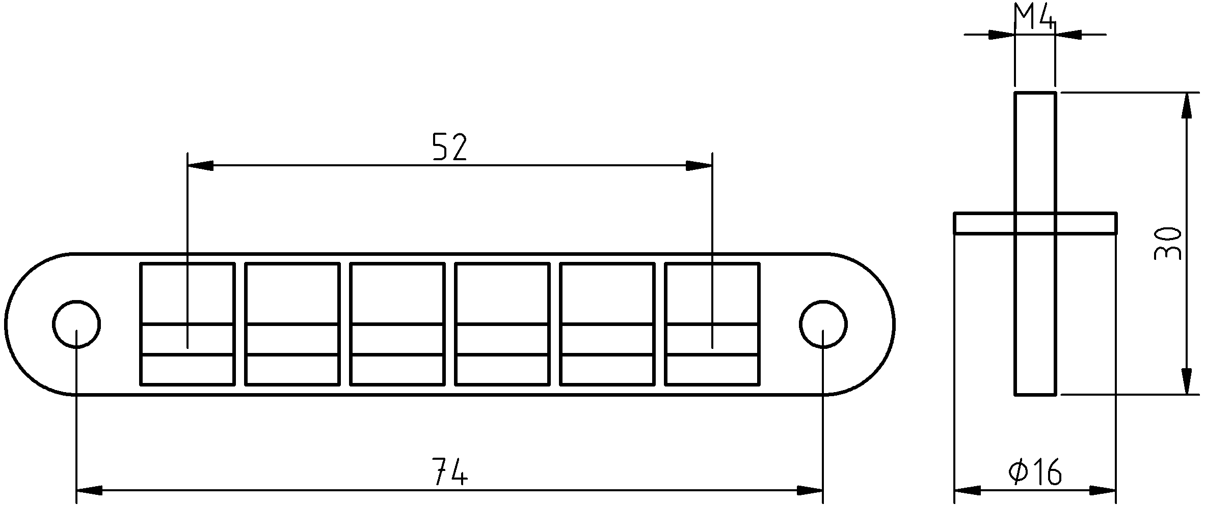 Schematic drawing of a Tune-o-matic guitar bridge